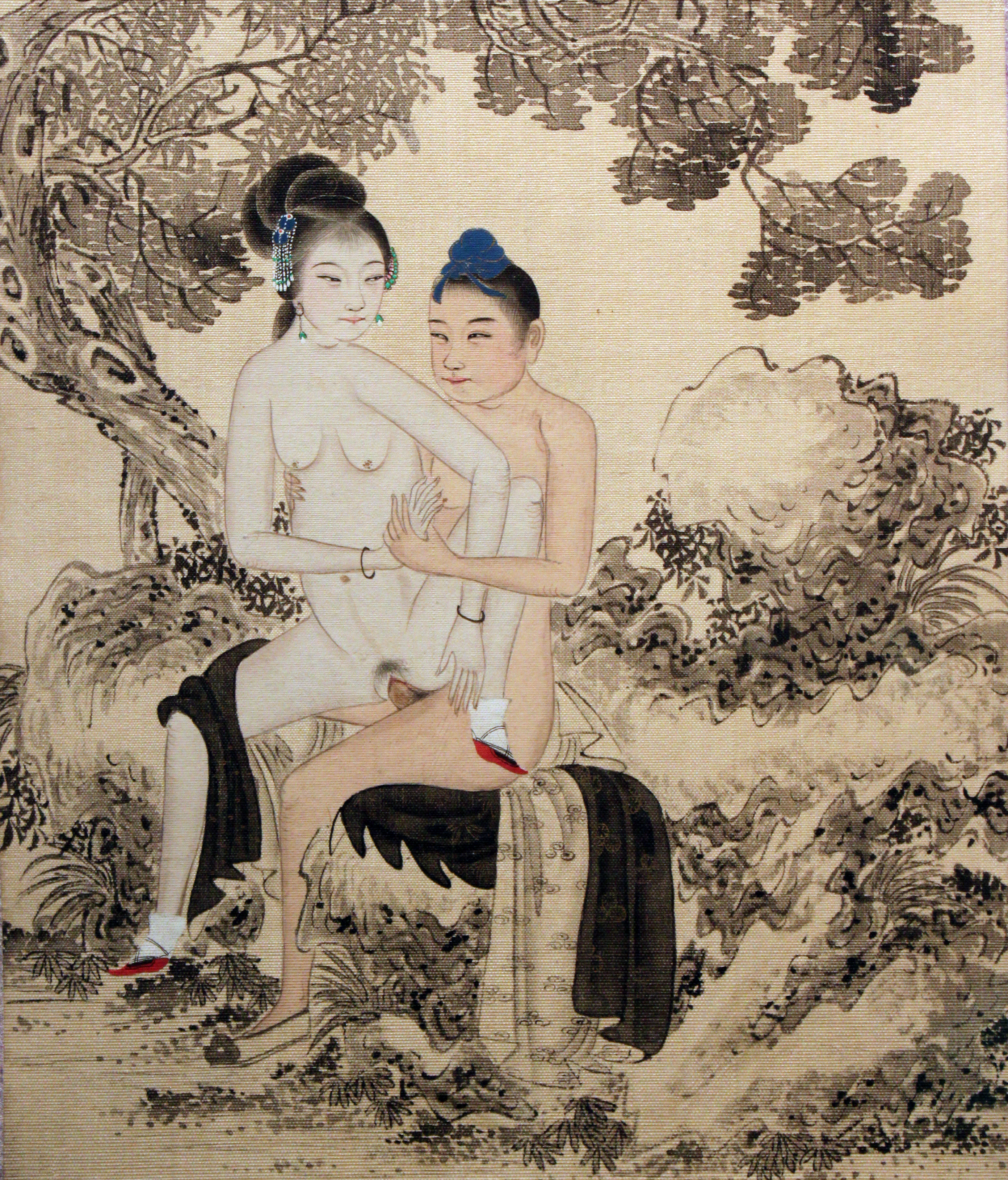 "Spring Picture"